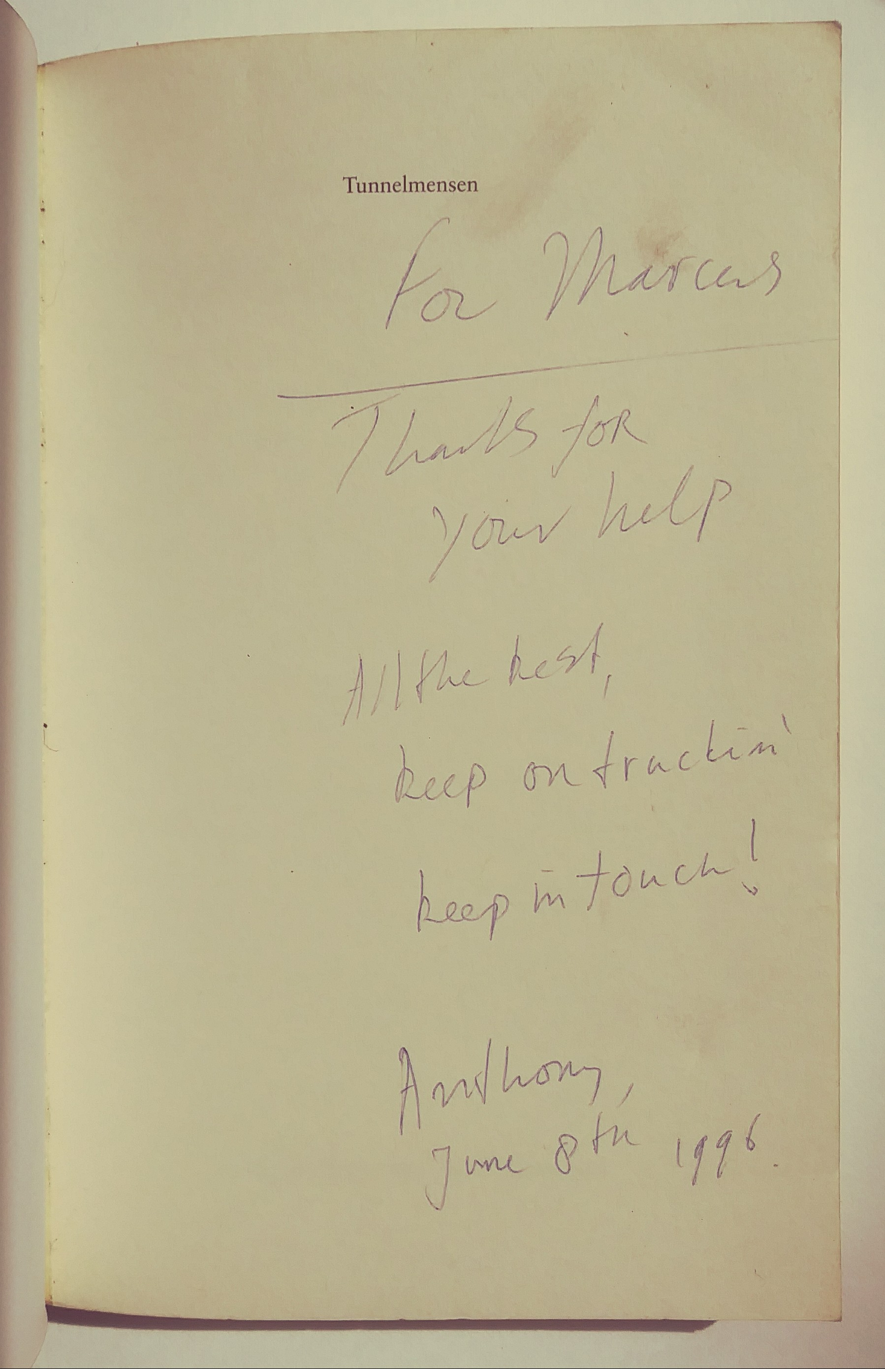 Teun Voeten's inscription in a copy of his book Tunnelmensen ("Tunnel People") given to Marcus, one of the abandoned-railroad-tunnel-dwelling subjects of the book: "For Marcus Thanks for your help, All the best , keep on truckin'! keep in touch! Anthony June 8th 1996" A separate note from Voeten to Marcus that was folded and tucked into the book is here